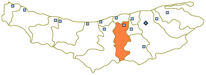 Babol o Babul, Mazanderan